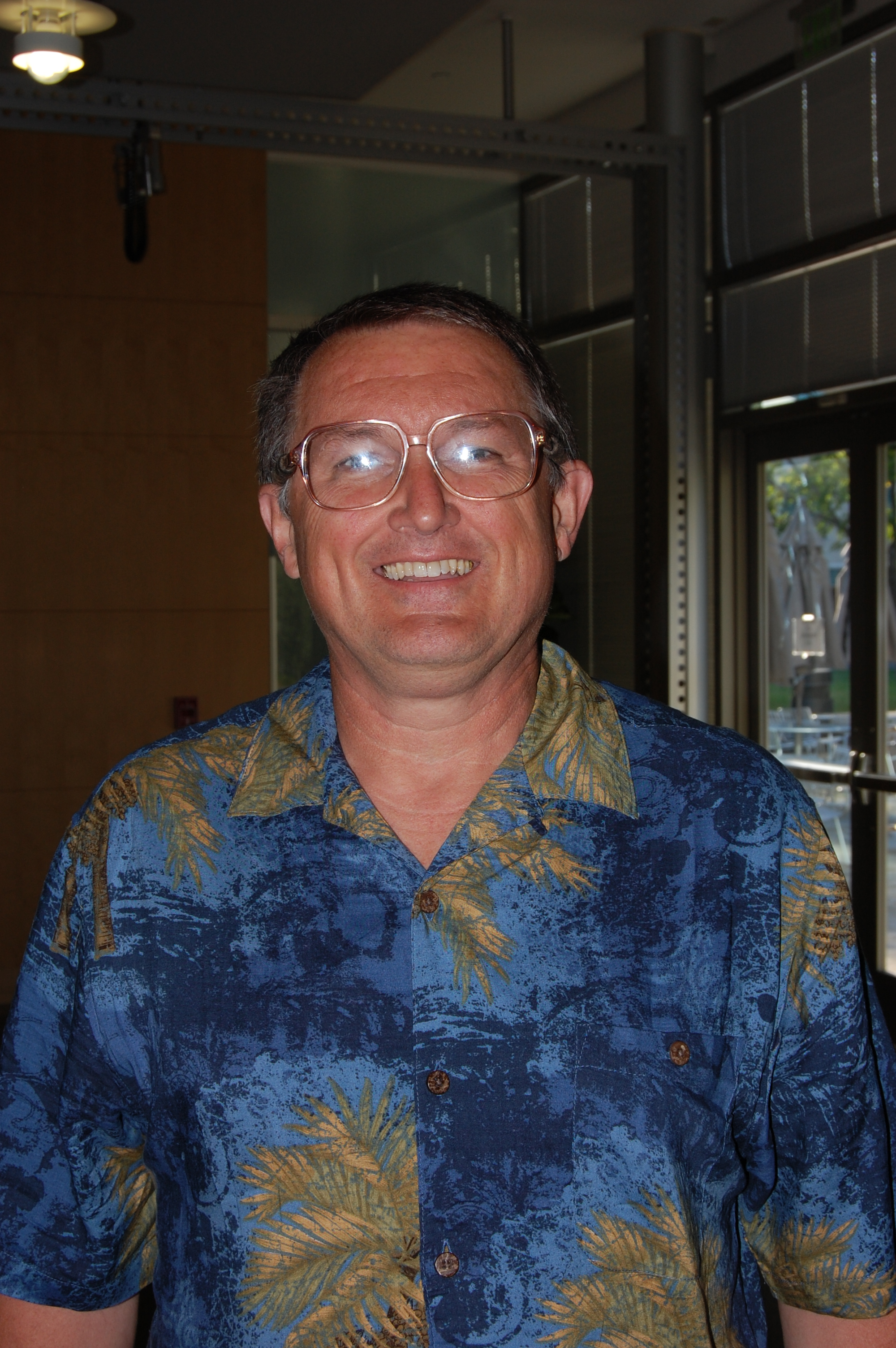 Randall Hyde on SVLUG meeting